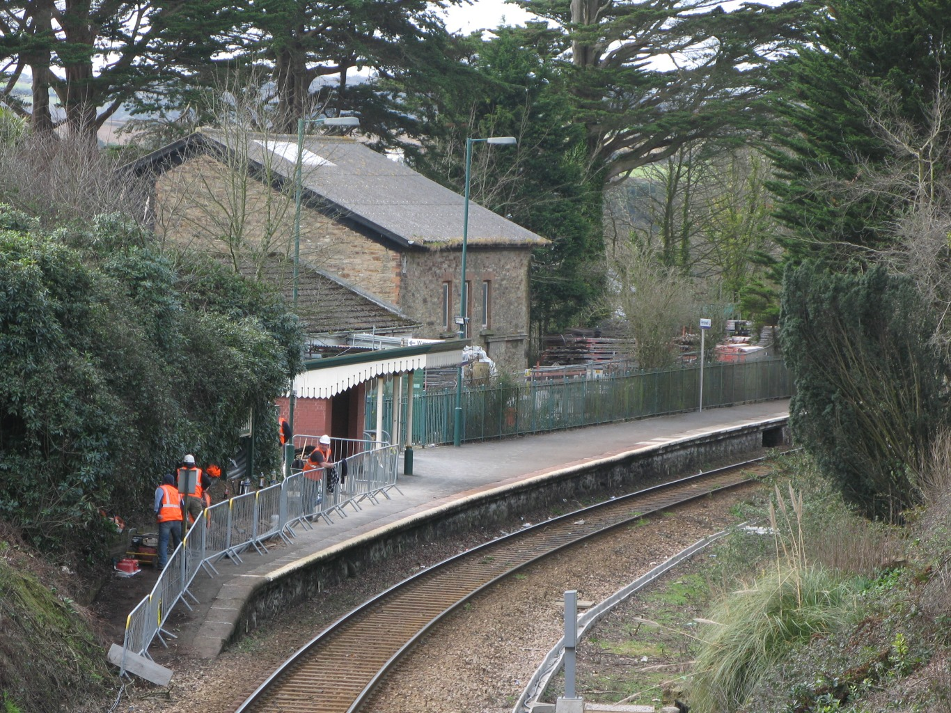 The railway station at Perranwell, Cornwall, United Kingdom. Work is underway to install signalling equipment in connection with a new passing loop at Penryn, the next station along the line.